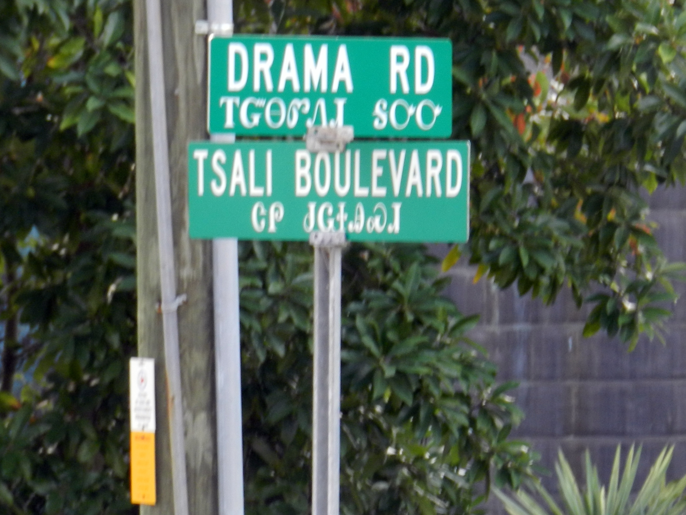 Street signs in Cherokee, North Carolina